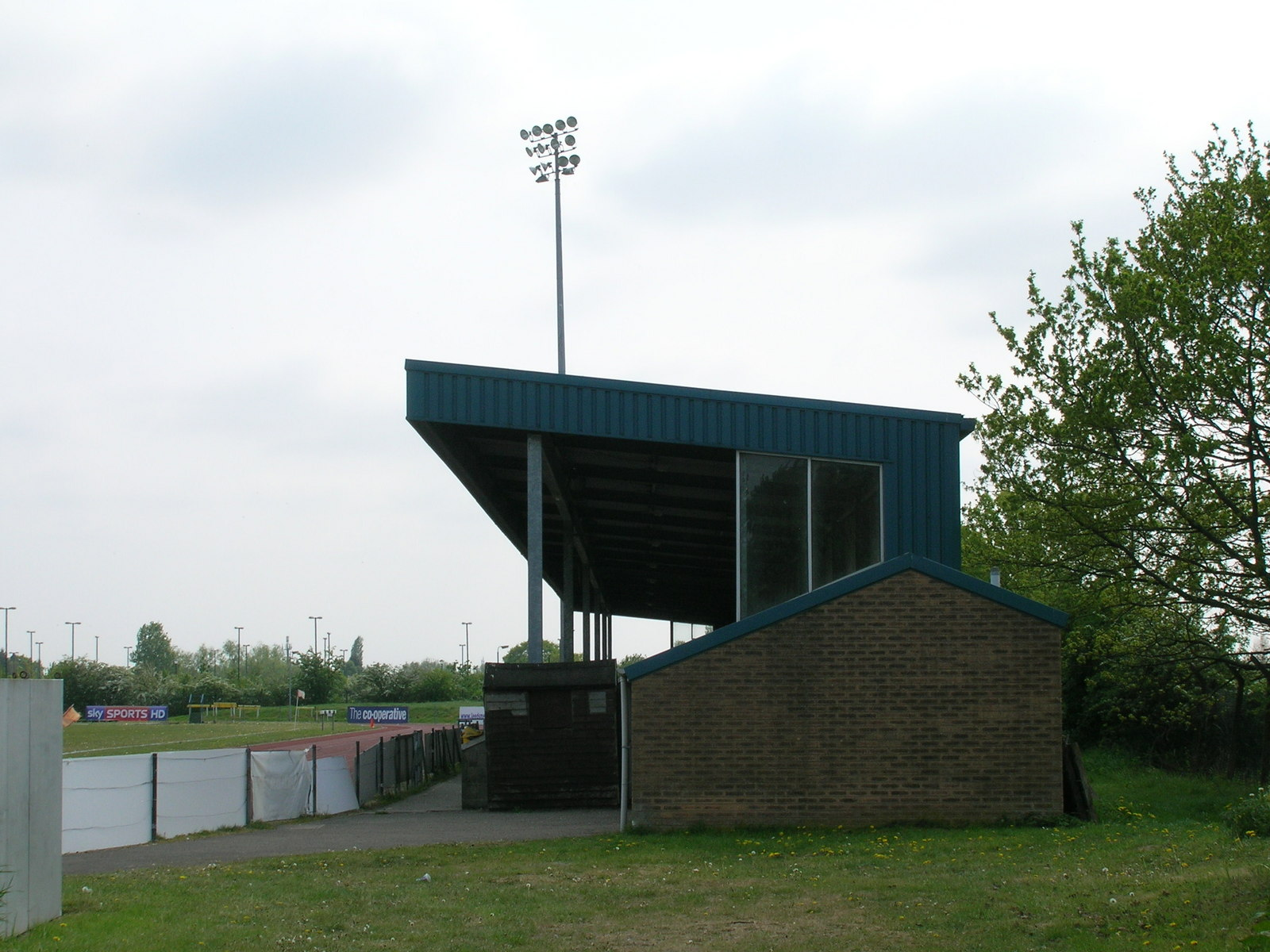 Stand, Rugby League Club